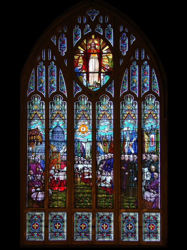 Church of Saint-Viateur d'Outremont, Montreal, Quebec, Canada. North transept stained-glass window.